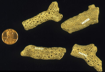 Caption from KGS website: The Pennsylvanian tabulate coral Thamnoporella illustrates the branching structure of some colonies. These corals were collected from the Bethany Falls Limestone Member, Swope Limestone in Labette County, Kansas. Other information From copyright page: The user is granted the right, without any fee or cost, to access, link to and use, publish, distribute, disseminate, transfer, or in any manner alter, modify, revise, copy, edit, or digitize this information. It is unlawful to falsely claim copyright or other rights in KGS material. The user must include an appropriate citation crediting the source of all or any portion of this website and its contents as follows: "The source of this material is the Kansas Geological Survey website at All Rights Reserved." If the user does reuse or redistribute information contained on this site, the user acknowledges that KGS or its affiliates, retains a nonexclusive, royalty-free, perpetual, irrevocable, and full right to use, reproduce, modify, adapt, publish, translate, create derivative works from, distribute, and display the original information throughout the world in any media. KGS expressly disclaims the applicability of the Uniform Computer Information Transactions Act (UCITA).